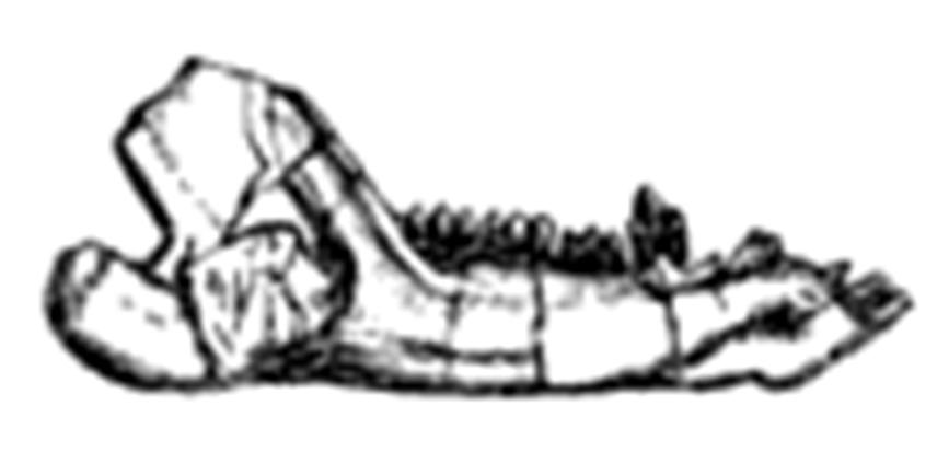 Fig. 118. Jaw of Triconodon mordax (nat. size), Purbeck. In Owen, R. (1861). Palaeontology or a systematic summary of extinct animals and their geological remains. Edinburgh: A. & C. Black. pp. 270–275; 2nd edition.